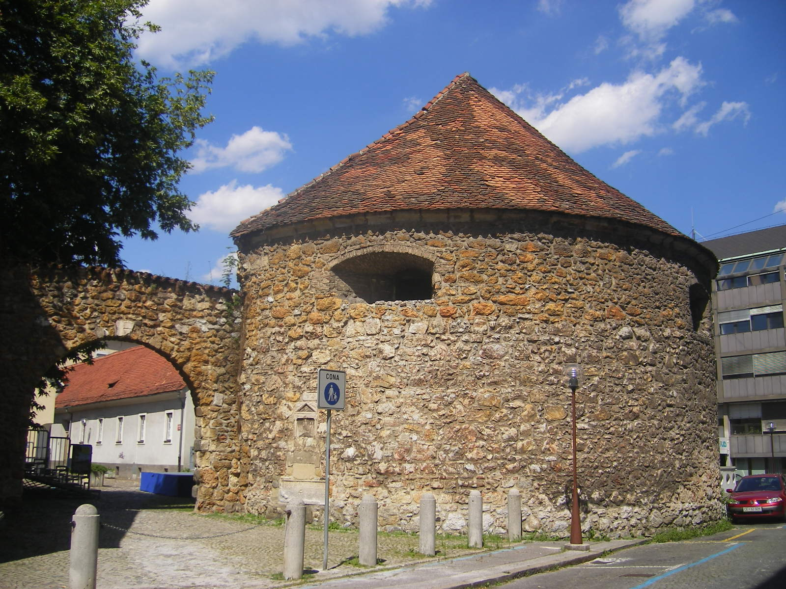 Celje - Water TowerSlovenščina: Celje - Vodni stolp